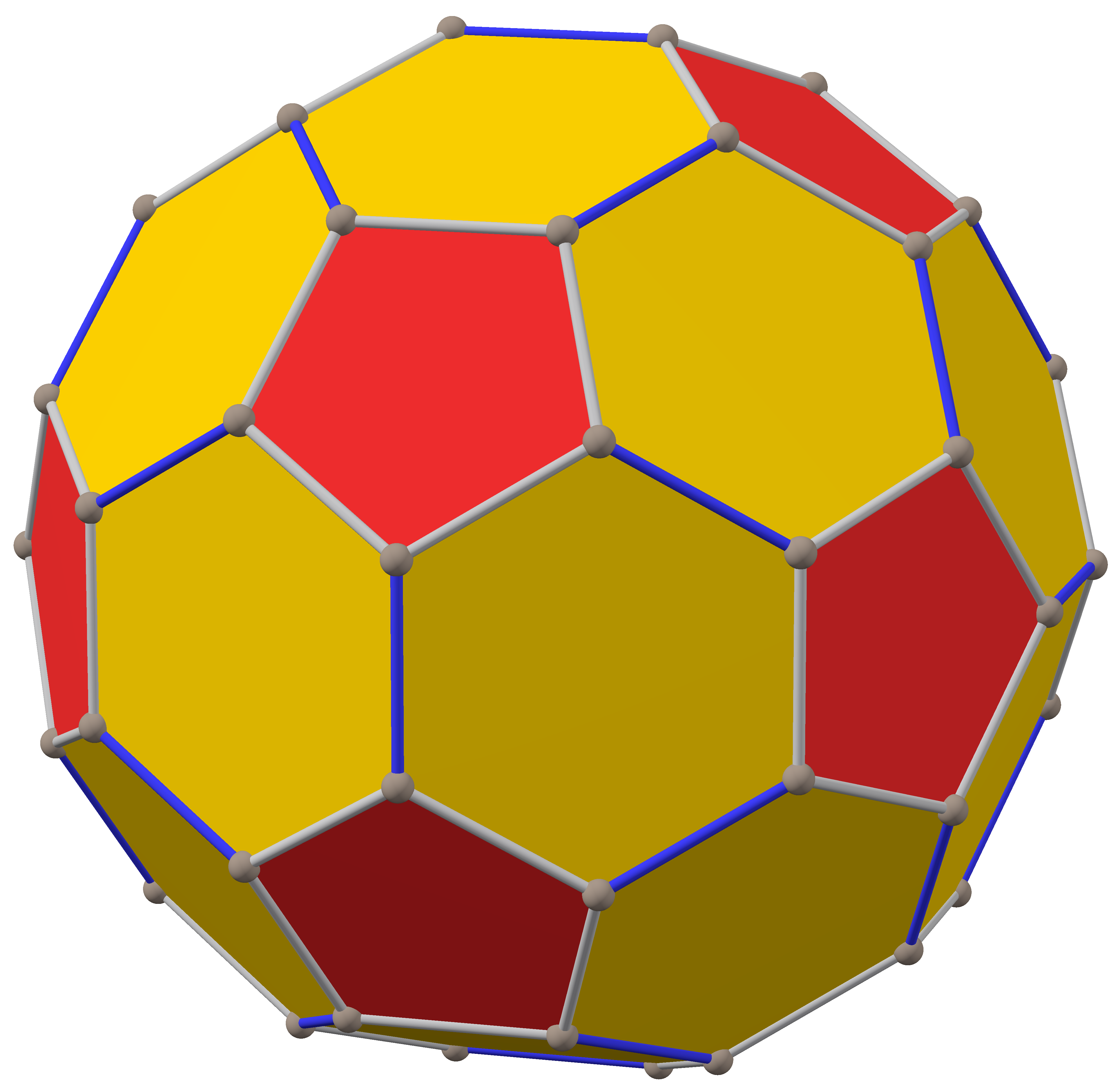 Truncated icosahedron Image set Platonic, Archimedean and Catalan solids with direction colors Part of Polyhedra with direction colors (image set) This polyhedron has a form of icosahedral symmetry. There are 30 blue elements. This set contains renderings of Platonic, Archimedean and Catalan solids. For most of them the sphere shown on the right is the polyhedrons midsphere. The geometric properties of these images have been calculated with Python, and they have been rendered with POV-Ray. The source code used can be found on GitHub. The POV-Ray sources are in this folder. This image was created with POV-Ray. This PNG graphic was created with Python. The images in this set have consistent sizes and angles. Please do not overwrite them. If this image has a margin, there is probably a variant without it — or it can be uploaded. (Filename with " max" at the end.)